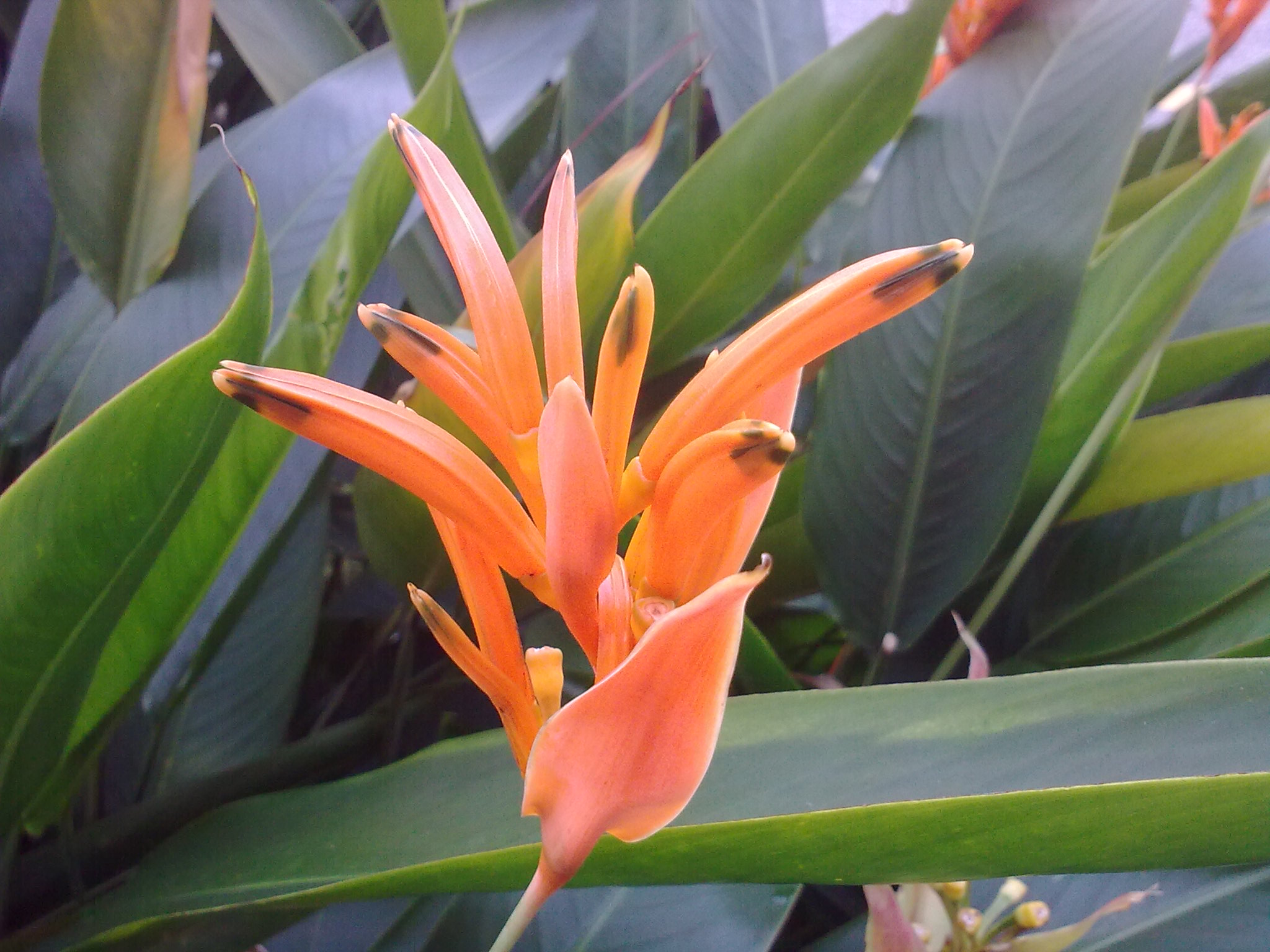 Unidentified plant in Singapore